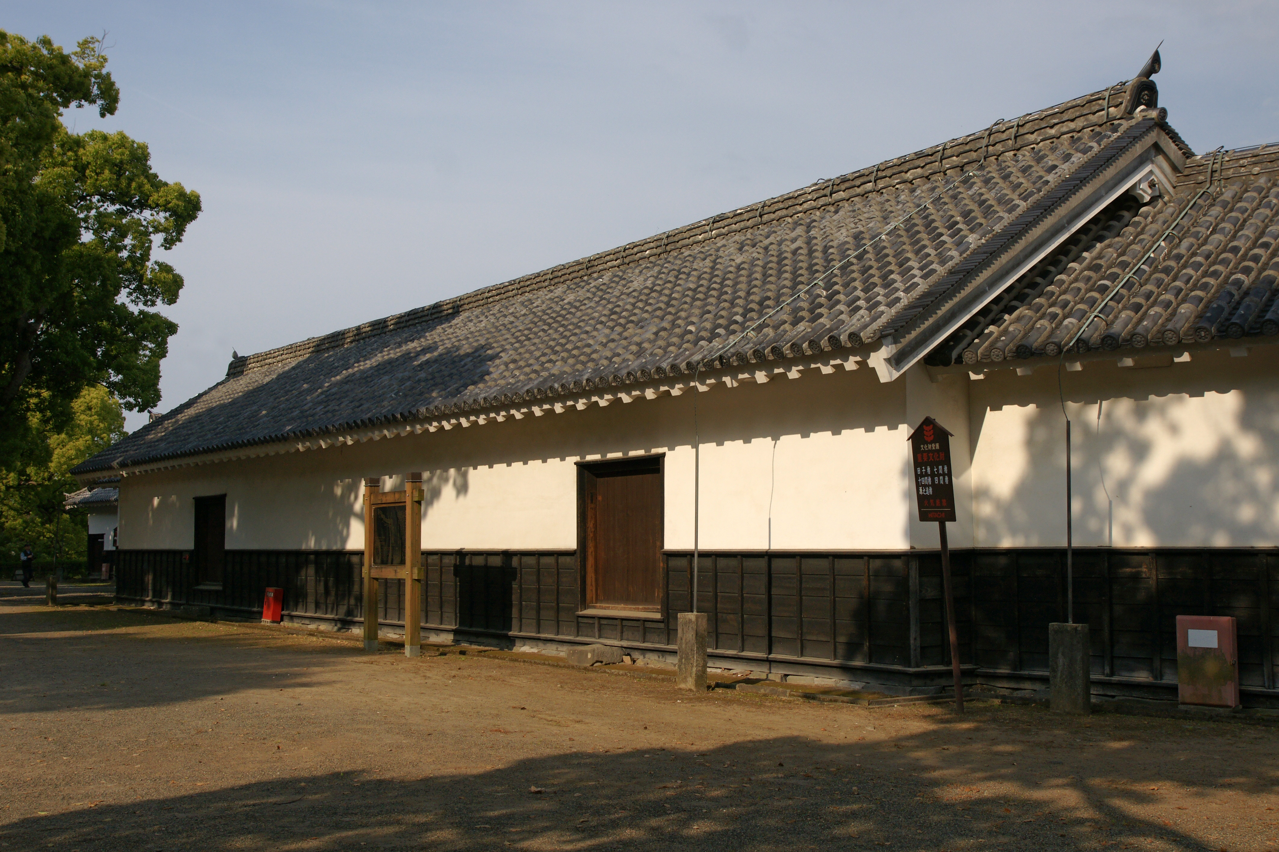 Kumamoto Castle, Kumamoto, Kumamoto prefecture, Japan